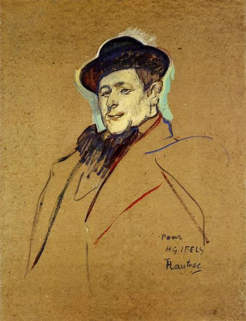 Portrait of Henri-Gabriel Ibels (1867-1936) by Henri de Toulouse-Lautrec (1864-1901)